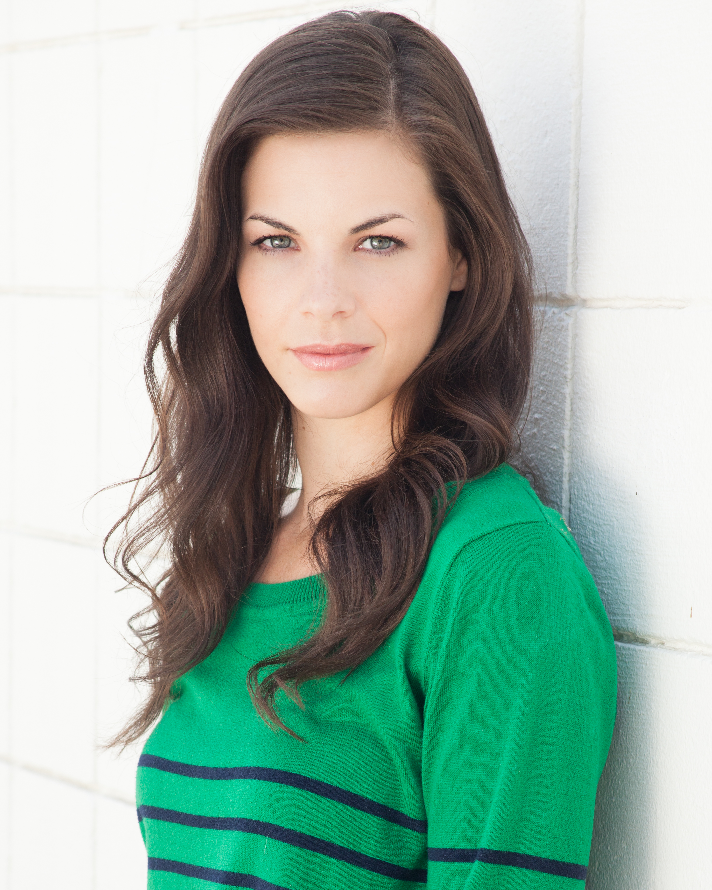 Haley Webb's most current headshot (2013).